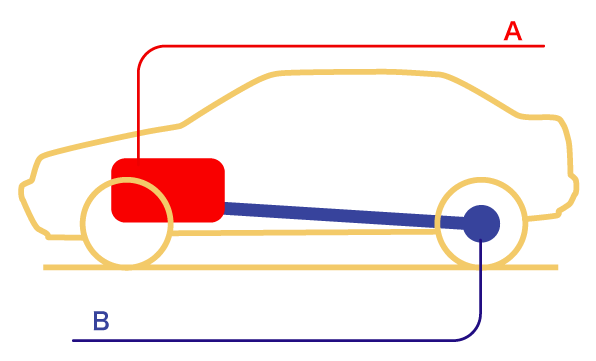 A front mid engine Rear-wheel-drive conception diagram by a car terminology. A part pointed at in "A" is an engine.And a part pointed at in "B" is a driving wheel